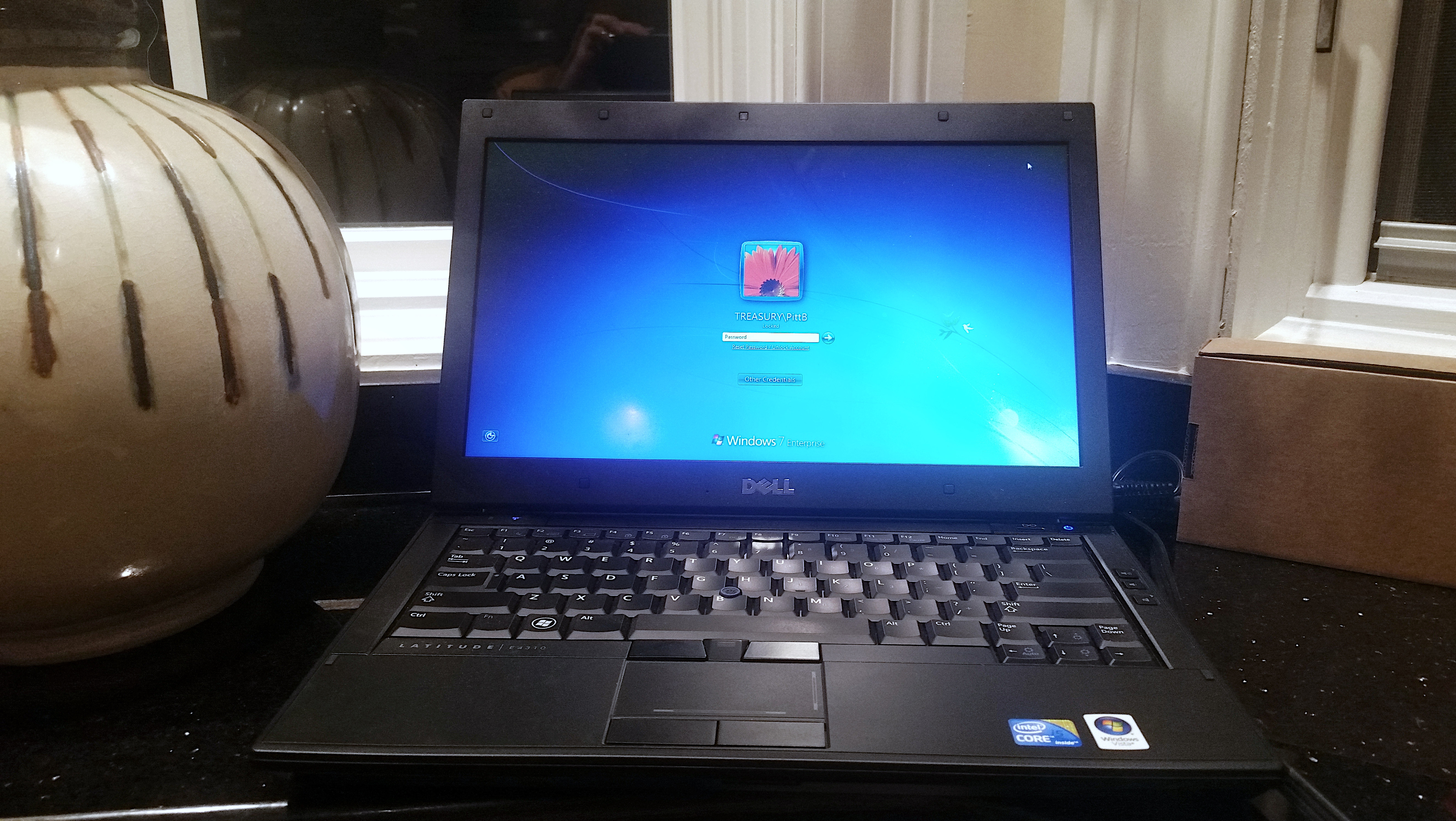 A Dell Latitude E4310 laptop running Windows 7 Enterprise.